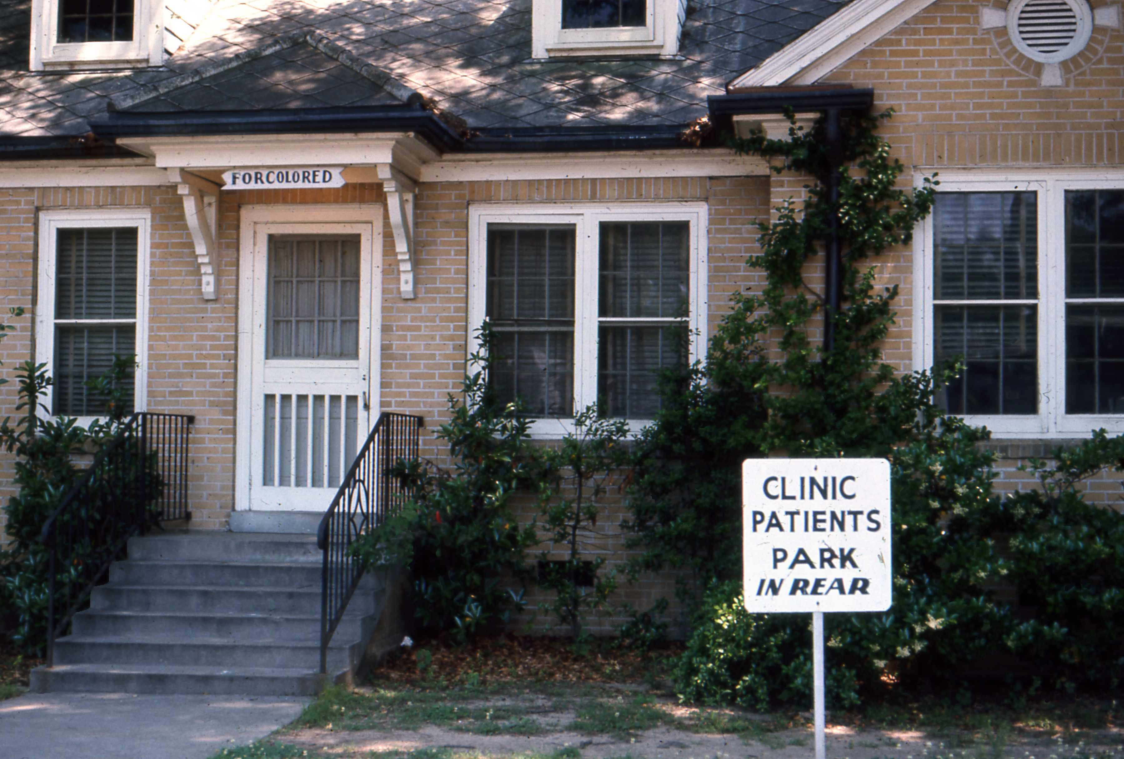 Clinic, Greenville, Mississippi, circa 1966. Note sign over door "FOR COLORED".